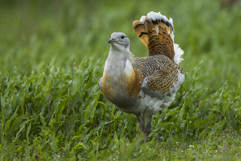 Great Bustard Otis tarda, male, Hortobagy, Hungary